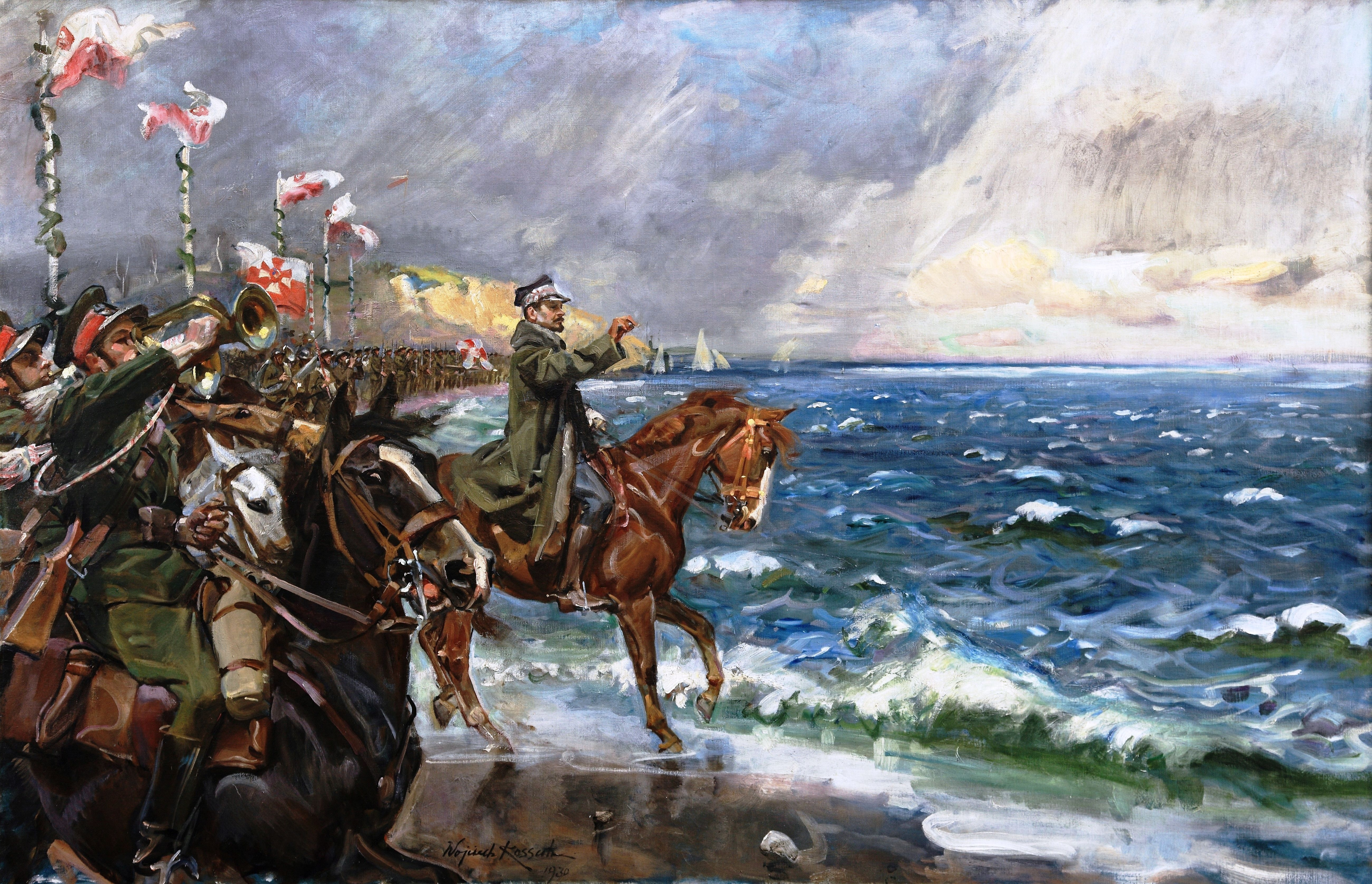 118 x 174 cm; Oil on canvas